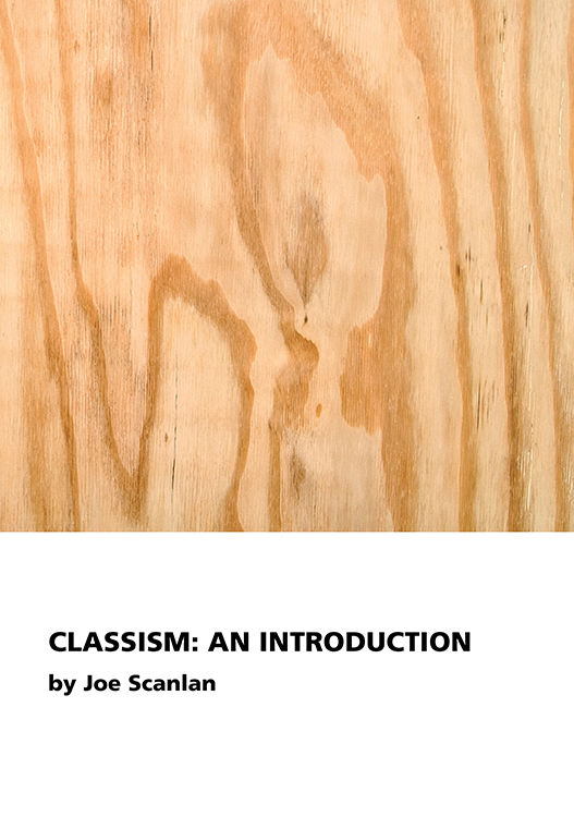 A pamphlet published by the Kunstverein in Hamburg as part of an exhibition titled Class Relations: Phantoms of Perception